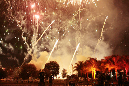 On May 23 1828, Diego José Lara, Governor of the State, promulgated a decree formally establishing an annual fair held in the city of Tuxtla, which was held from 6 to December 14 each year. Br Ayuntamiento de Tuxtla, presiding Juan María Balboa, took the inclusion of the December 12 in the annual fair to describe as the holder of the fair at Our Lady of the Blessed Virgin. Under the advocation of Guadalupe, patroness of our confederation. "